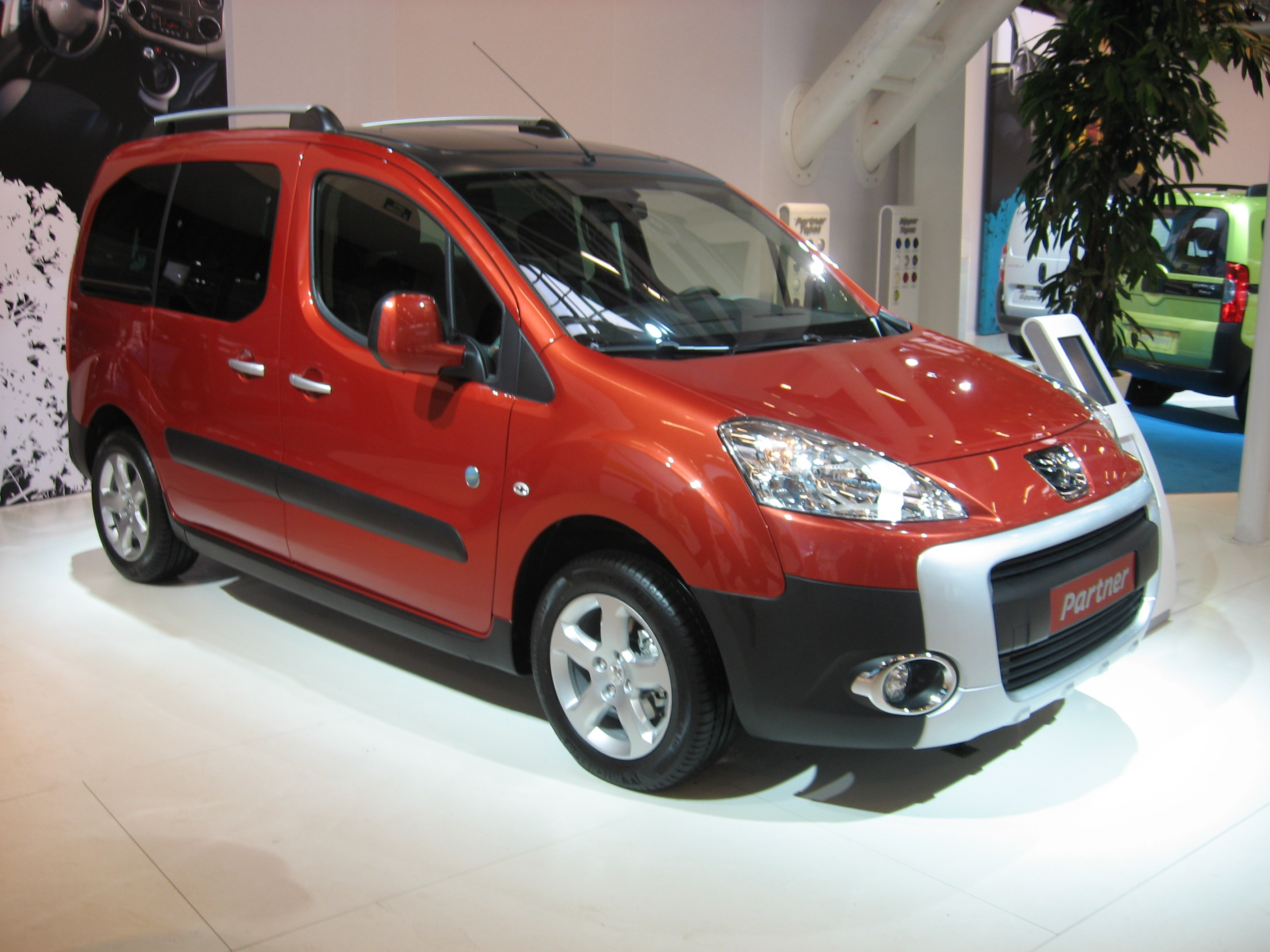 Subject: Peugeot Partner Mk2 Date: December 14th, 2008 Event: Bologna Motorshow 2008 Place/Country: Bologna, Italy I release all rights in the public domain.